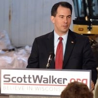 In office: April 30, 2002 – December 27, 2010